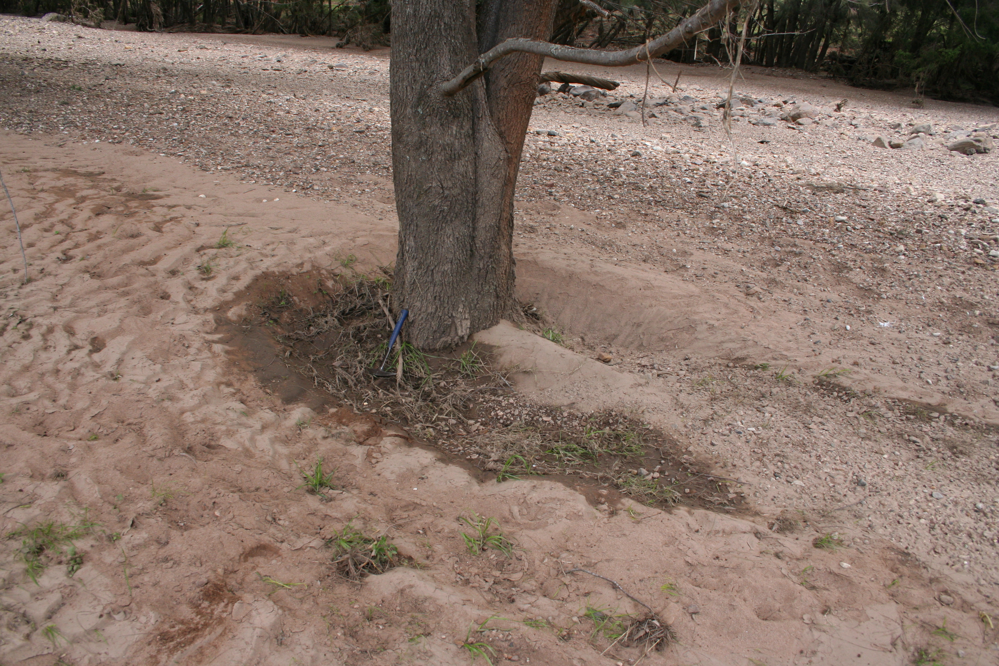 Obstacle scour and sediment shadow associated with a standing tree rooted within a sandy channel of Rocky Creek (Australia)